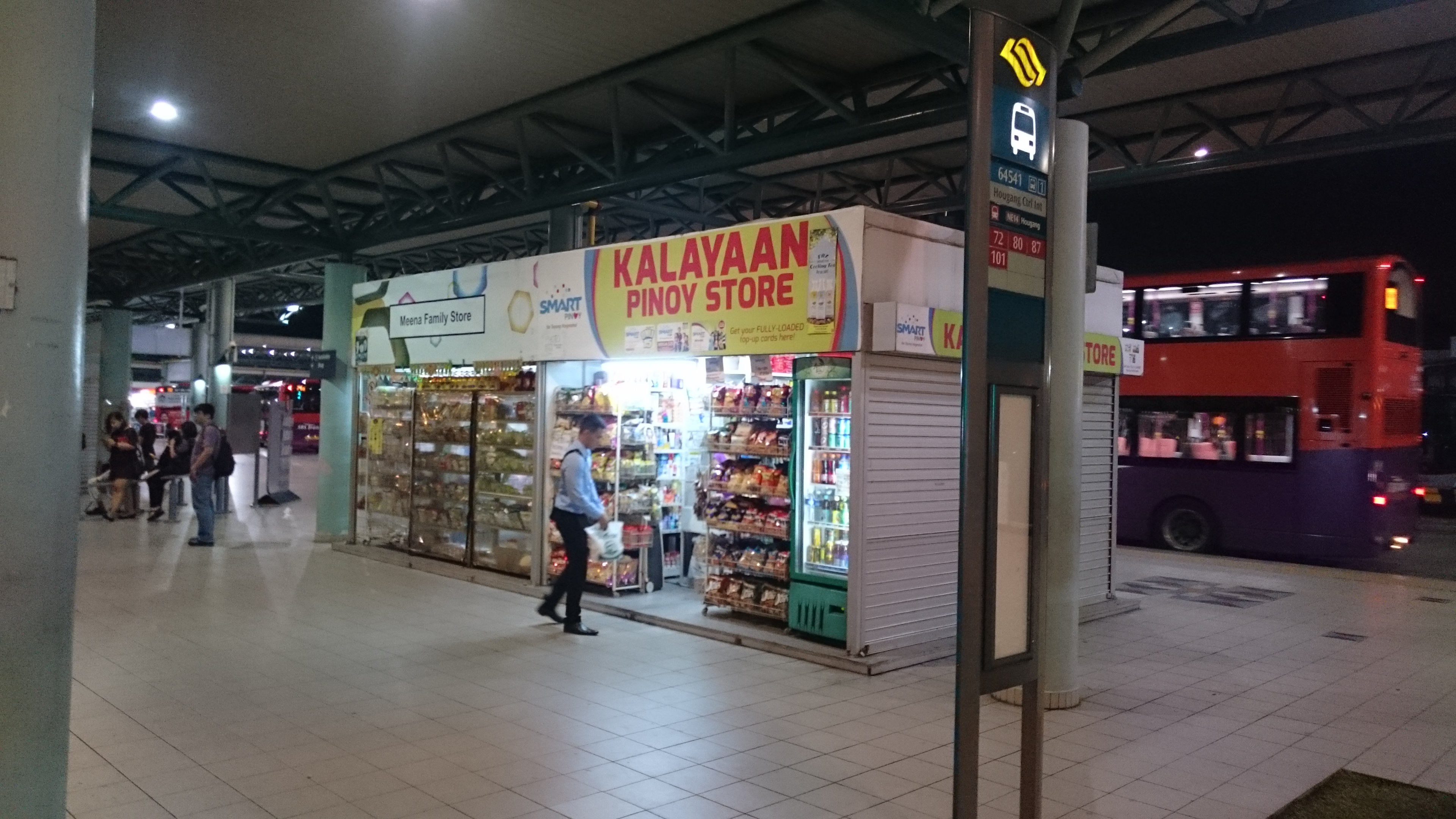 Sari-sari (Convenience) Store in Hougang District, Singapore